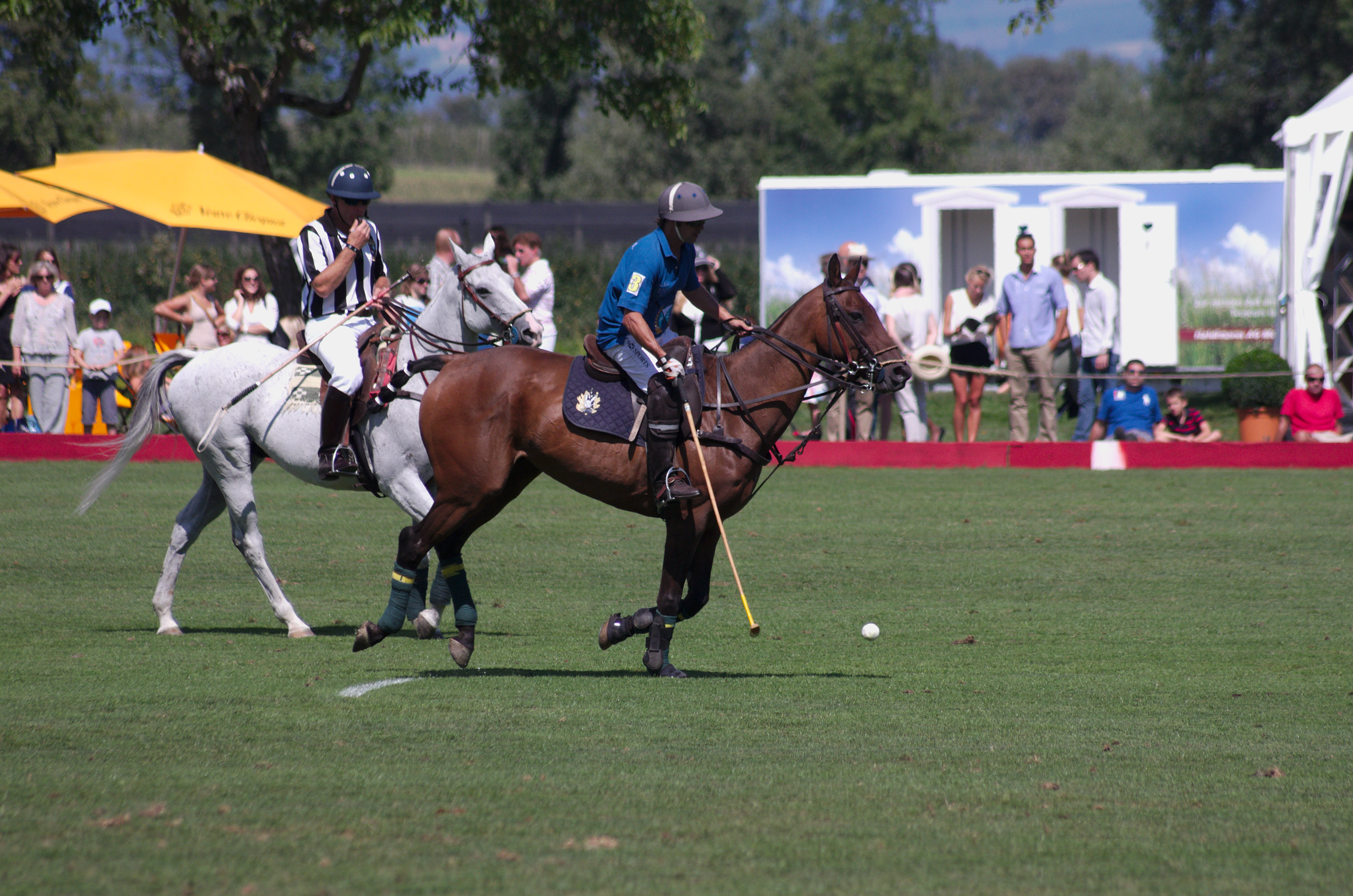 Jaeger-LeCoultre Polo Masters 2013 - 31082013 - Match Legacy vs Jaeger-LeCoultre Veytay for the third place